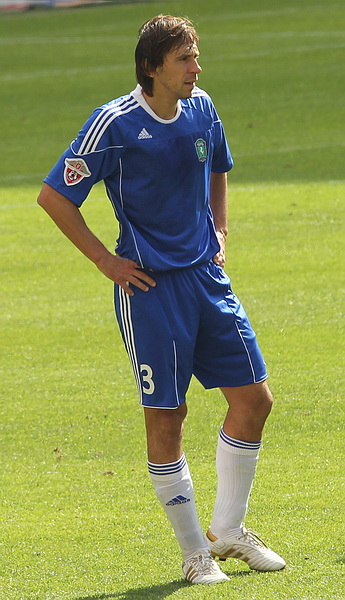 Valery Klimov